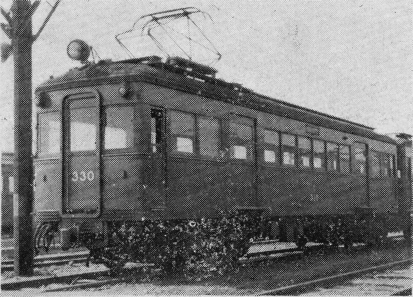 Hankyu Railway 320 series electric car #330 at the Nishinomiya Depot